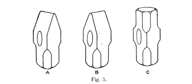 Blacksmith sledgehammers